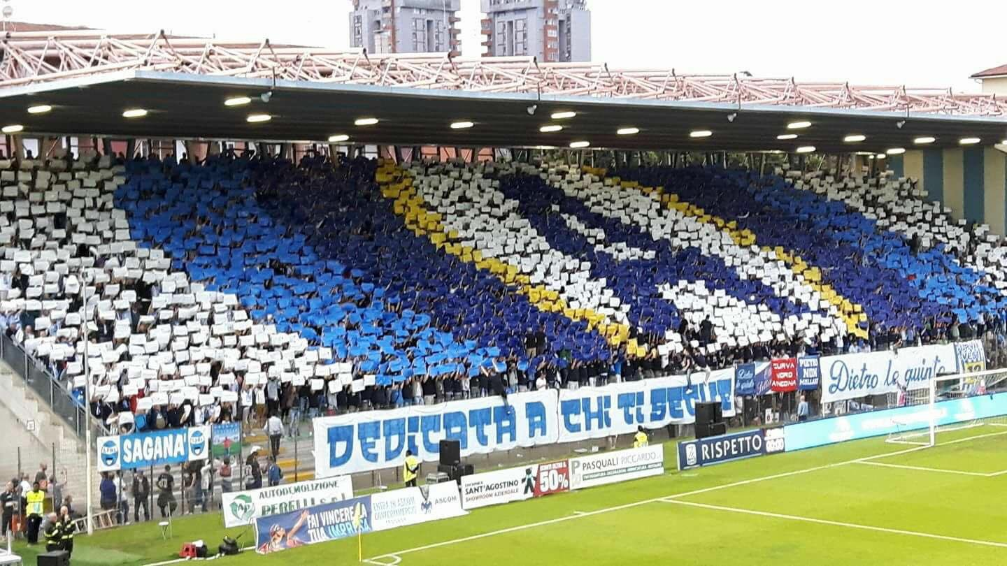 SPAL fans celebrating their promotion to Serie A before the last match of the 2016-2017 season.